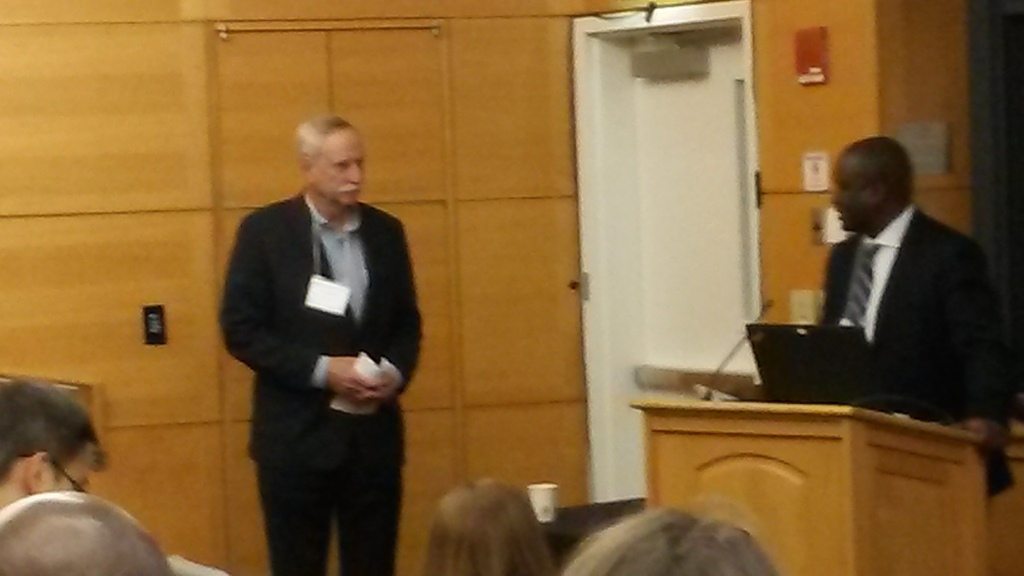 Walter Willett 2017-11-06 Walter C. Willett, MD, DrPH, at the The Agriculture, Nutrition, Health, and the Environment in Africa conference in LMA, the 9th Annual Nutrition and Global Health Symposium